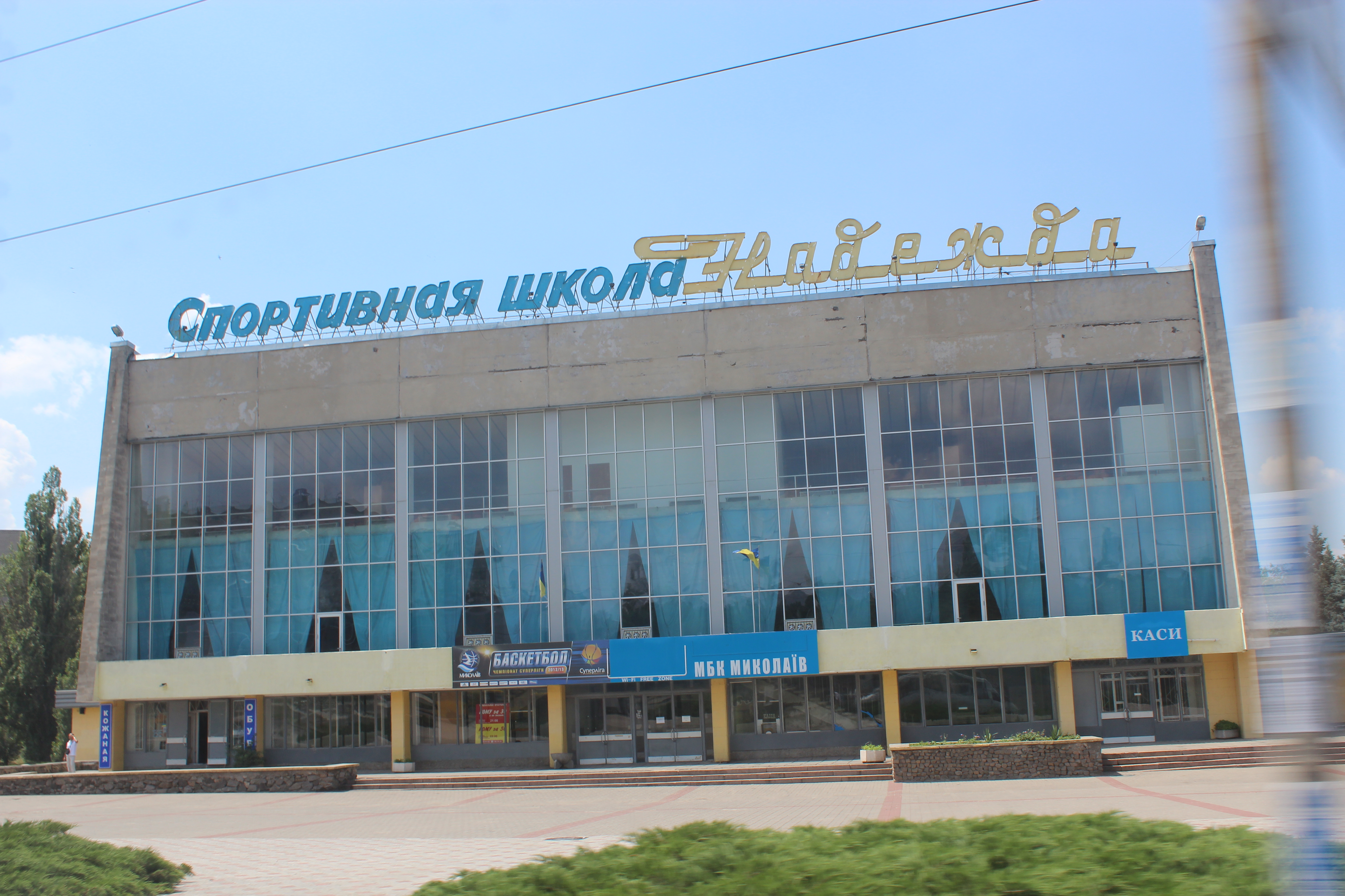 Sport School Nadezhda. Mykolaiv, Ukraine.